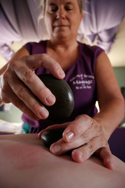 De Etta Sanchez performs a hot stone massage at her Academy of Somatics studio in Oxnard, California on July 13, 2006. (photo by Nadia Kazolides/Bored IQ).